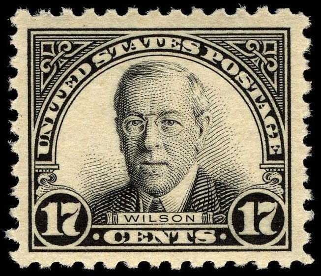 U.S. Postage stamp: Woodrow Wilson, Issue of 1925, 17c